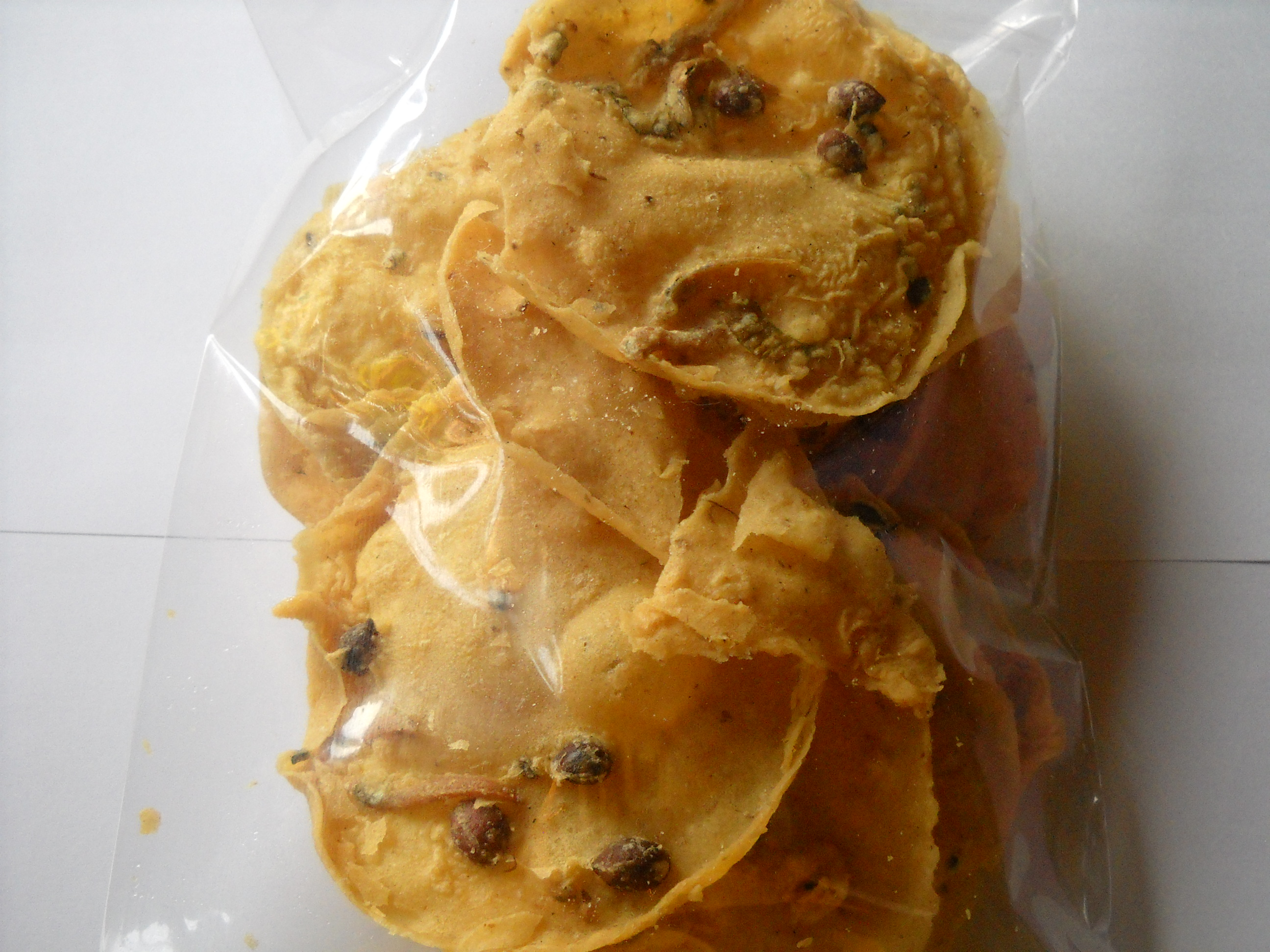 A small pack of Rempeyek with peanuts and anchovies.